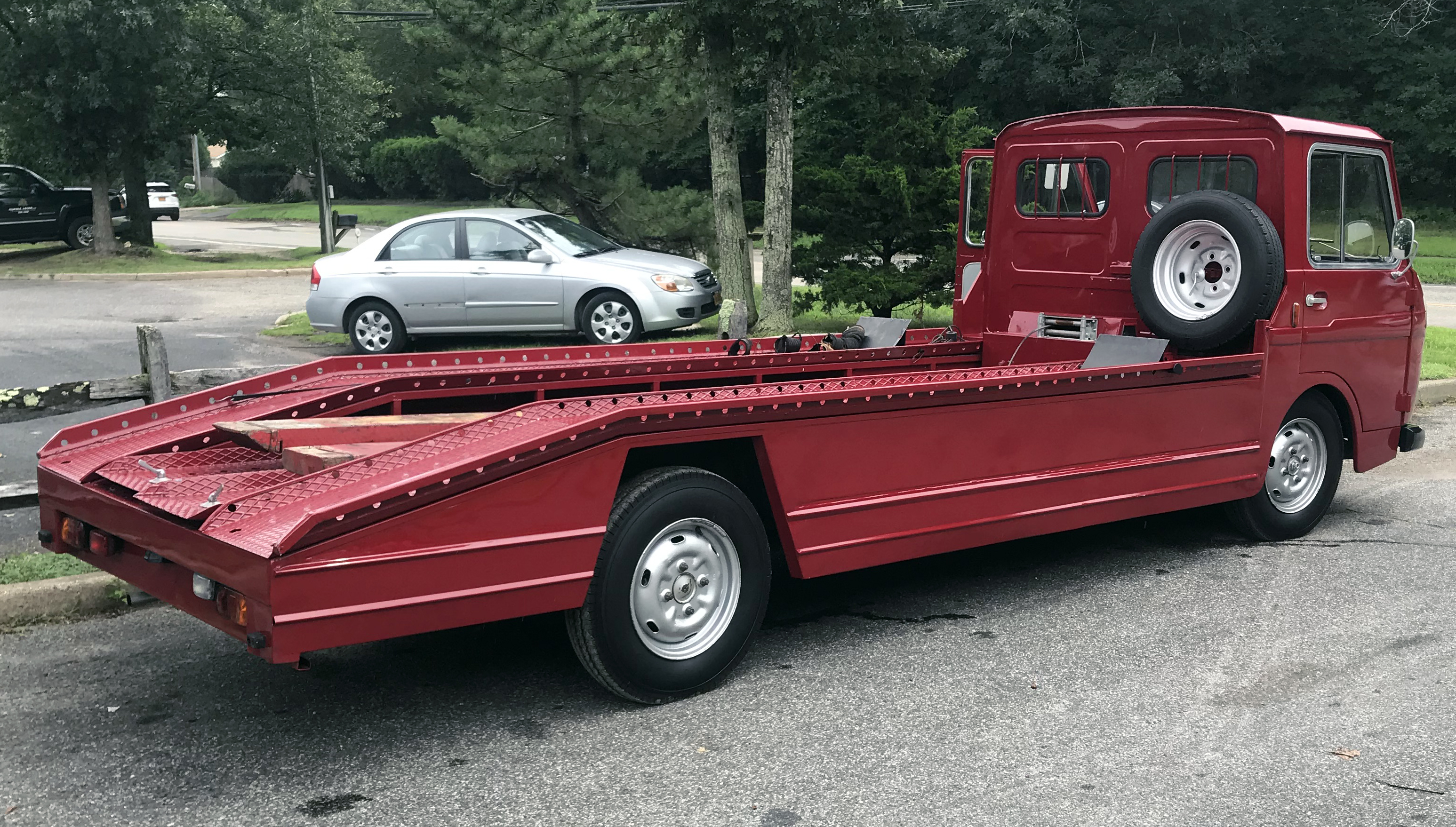 A 1970 Lancia Superjolly car transporter, stated to be the only one existing in the world. Probably a 1.8, but sold with a TBA chassis number and with some other irregularities attached to it, so who knows. A lovely lovely thing, can't wait to see it at Lime Rock with an OSCA or something on the back.